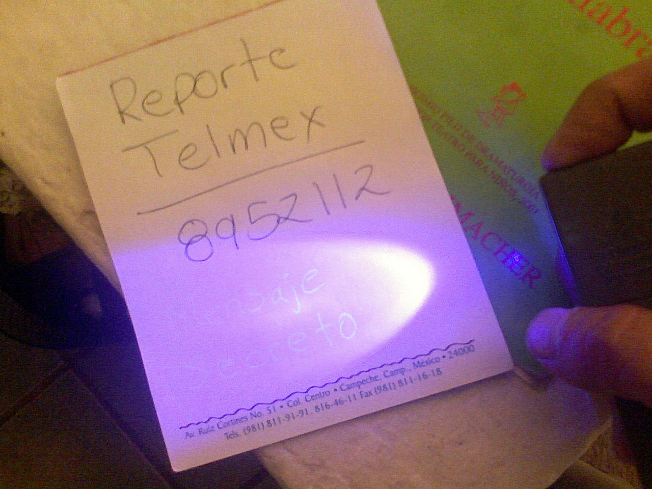 This toy came in a ceral box. I wonder how safe is the ink.